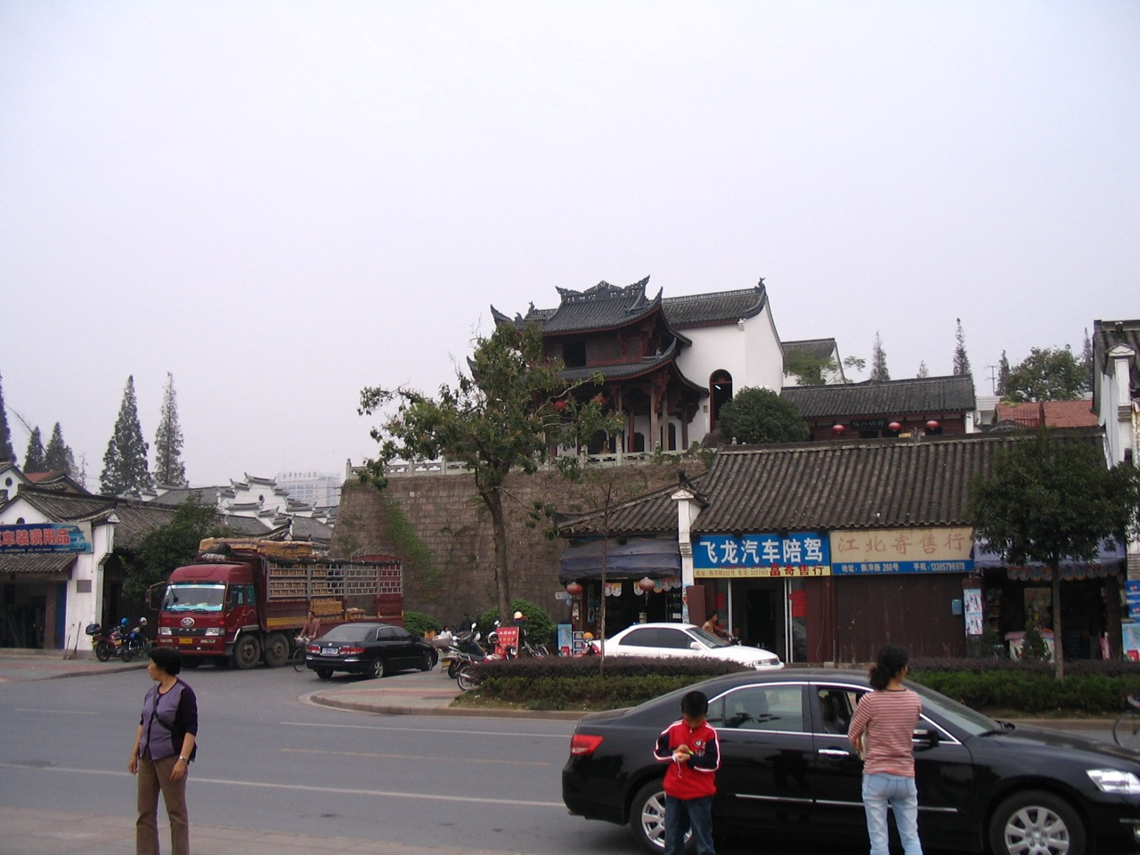 Ba Yong Lou (Eight Poet Building) is a historic landmark in Jinhua. It has of course been reconstructed many times, but the building was first built a couple thousand years ago, and a few famous people have lived in it or hung out at it. (It wasn't clear to me what it's original purpose was.)